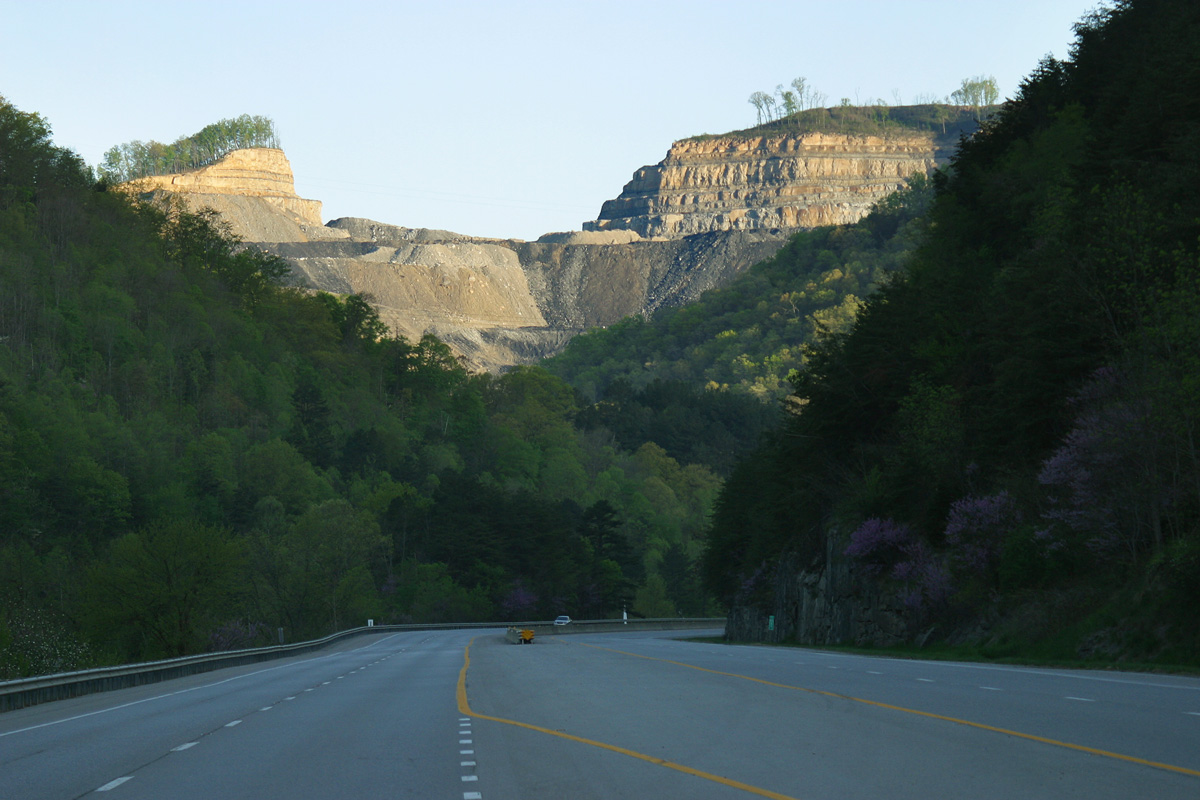 Mountaintop removal mine in Pike County, Kentucky just off U.S. 23. Photo by Matt Wasson, Appalachian Voices.